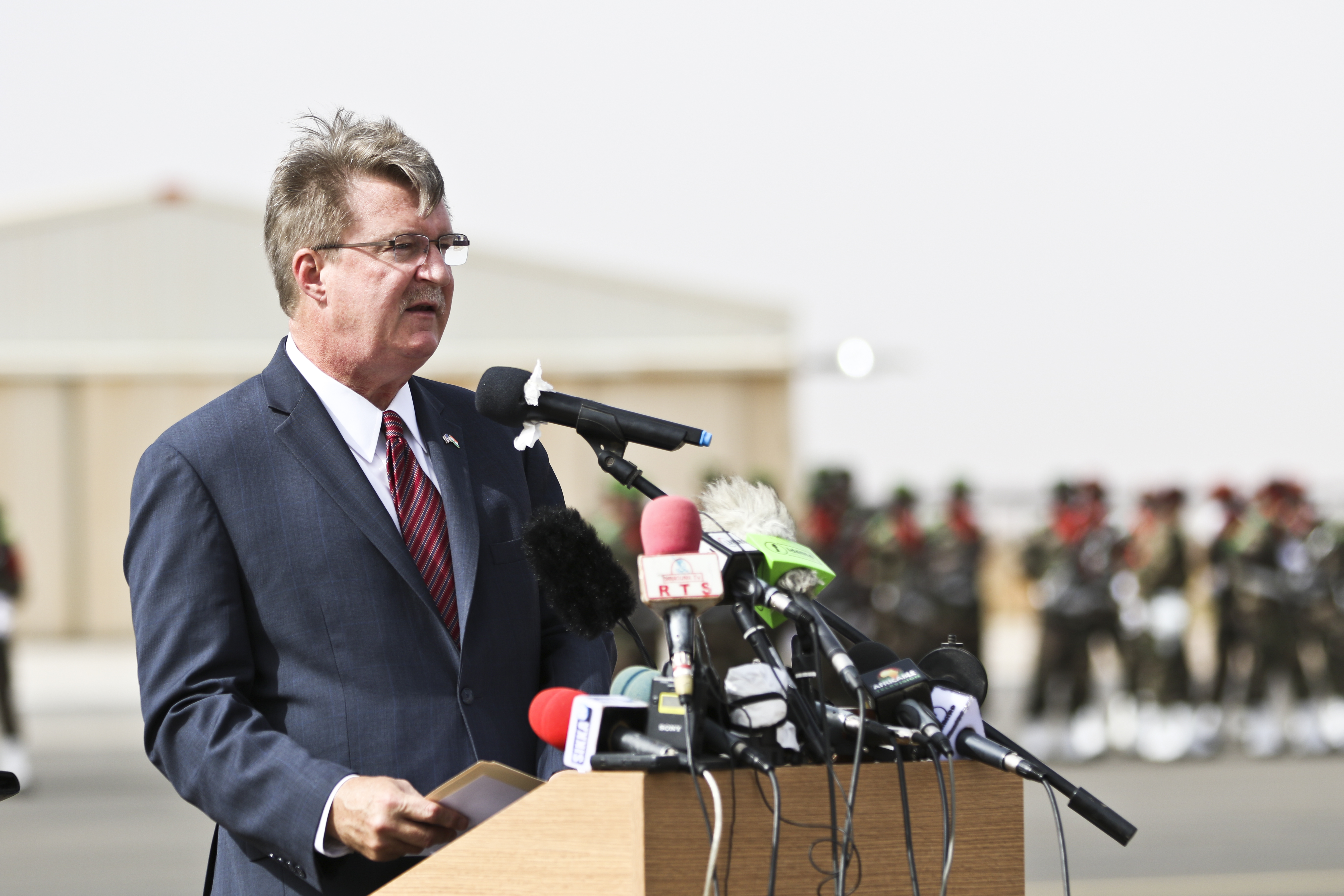 NIAMEY, Niger – Amb. Eric Whitaker, U.S. Ambassador to Niger, gives a speech during the opening ceremony of Flintlock 2018 in Niamey, Niger, April 11, 2018.